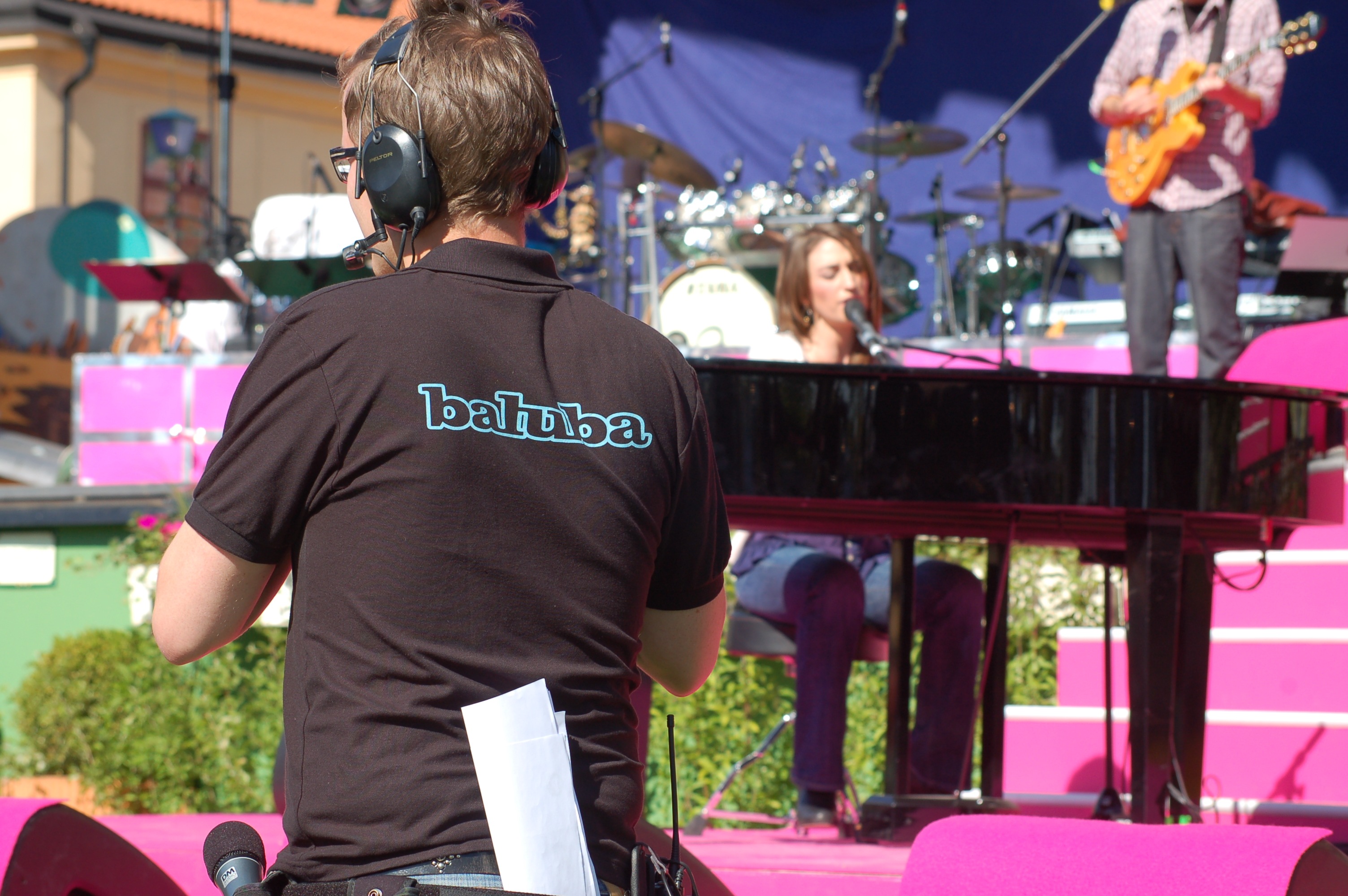 Baluba Television shooting Sommarkrysset